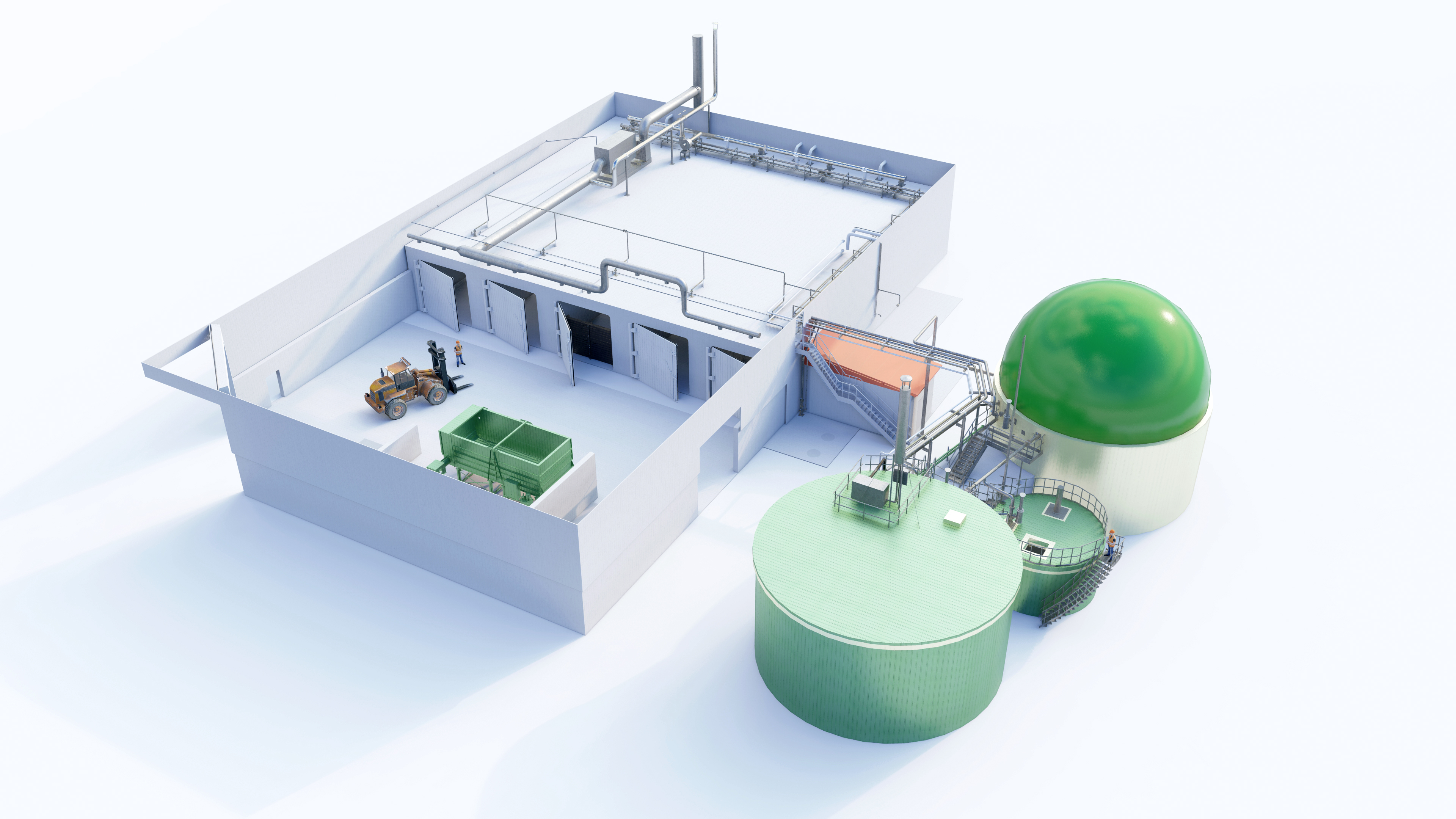 High solids (dry) digesters are designed to process materials with a solids content between 25 and 40%. Unlike wet digesters that process pumpable slurries, high solids (dry – stackable substrate) digesters are designed to process solid substrates without the addition of water. The primary styles of dry digesters are continuous vertical plug flow and batch tunnel horizontal digesters. Continuous vertical plug flow digesters are upright, cylindrical tanks where feedstock is continuously fed into the top of the digester, and flows downward by gravity during digestion. In batch tunnel digesters, the feedstock is deposited in tunnel-like chambers with a gas-tight door. Neither approach has mixing inside the digester. The amount of pretreatment, such as contaminant removal, depends both upon the nature of the waste streams being processed and the desired quality of the digestate. Size reduction (grinding) is beneficial in continuous vertical systems, as it accelerates digestion, while batch systems avoid grinding and instead require structure (e.g. yard waste) to reduce compaction of the stacked pile. Continuous vertical dry digesters have a smaller footprint due to the shorter effective retention time and vertical design. Wet digesters can be designed to operate in either a high-solids content, with a total suspended solids (TSS) concentration greater than ~20%, or a low-solids concentration less than ~15%.